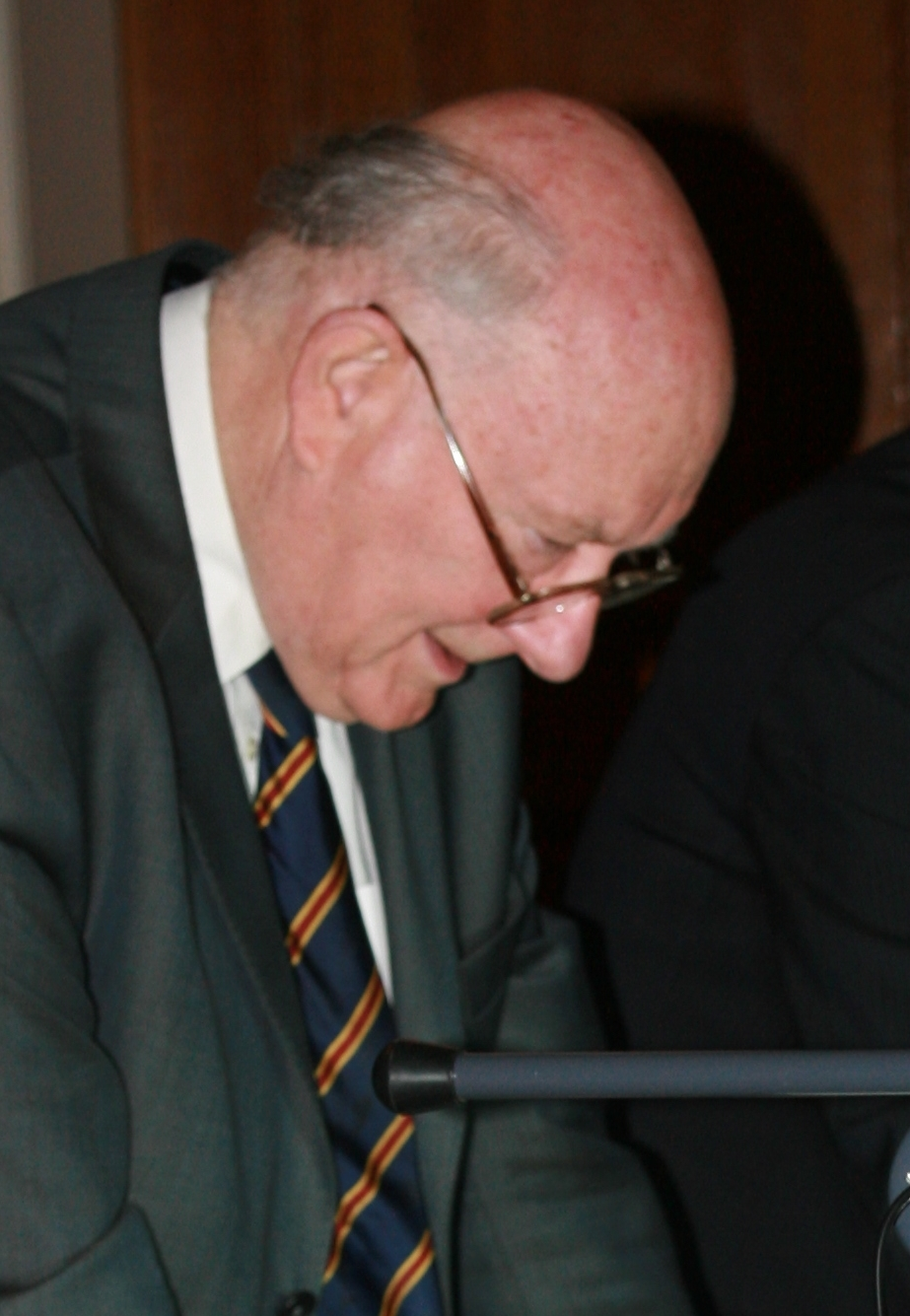 Colin Renfrew, Baron Renfrew of Kaimsthorn looking at gold coins